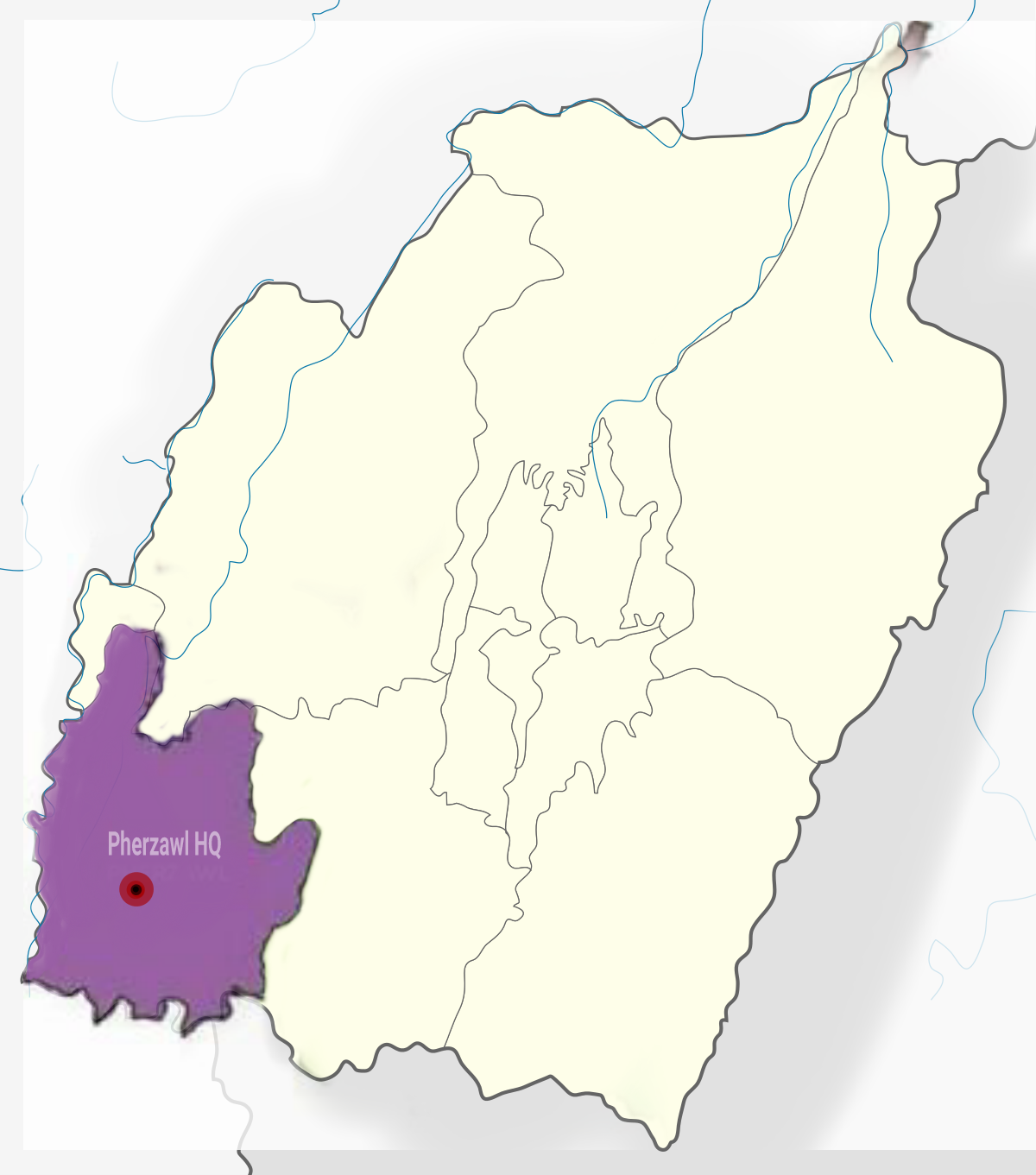 Pherzawl is a new District in Manipur